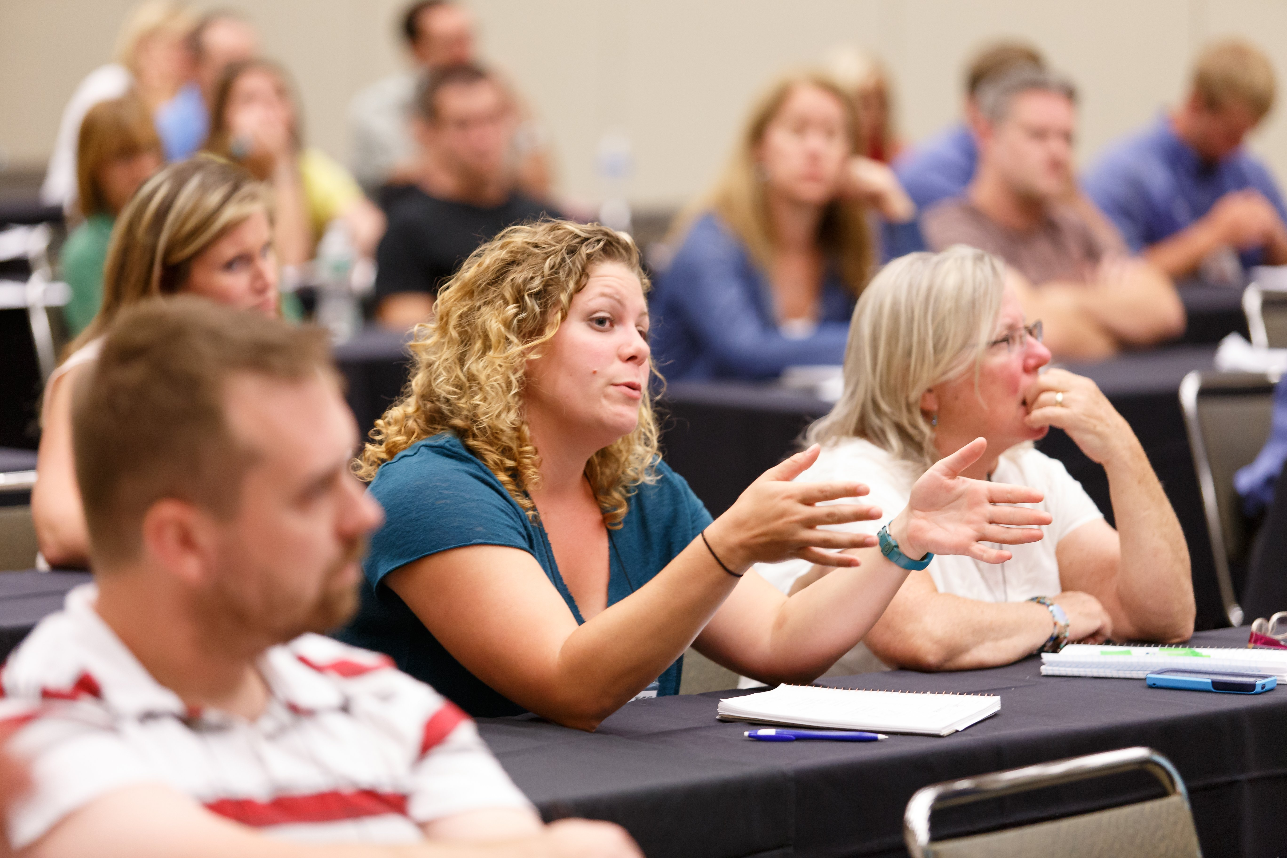 IGC retailers had access to over 30 hours of educational sessions at the IGC Retail Conference covering a range of topics important to IGCs at both IGC Shows.